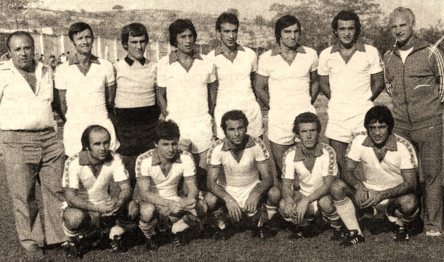 FK Tikveš in the late 60s